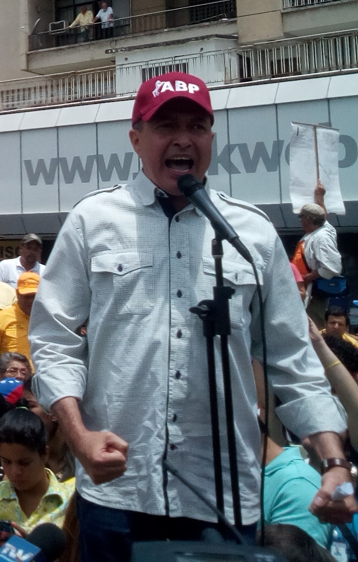 Richard Blanco during the Venezuelan National Assembly special session in Brión Square, Caracas, on 1 April 2017